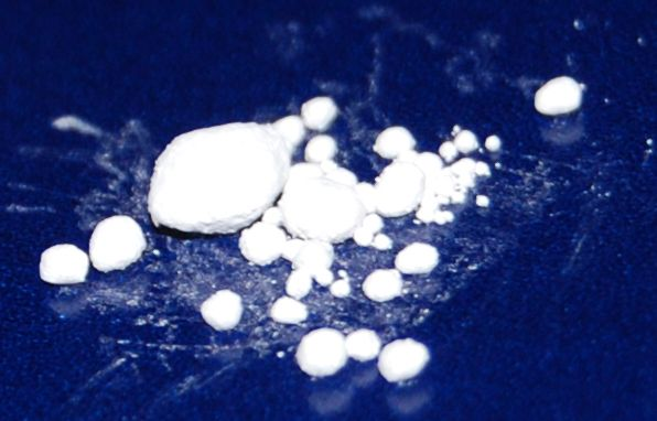 Mercury Chloride in granular form